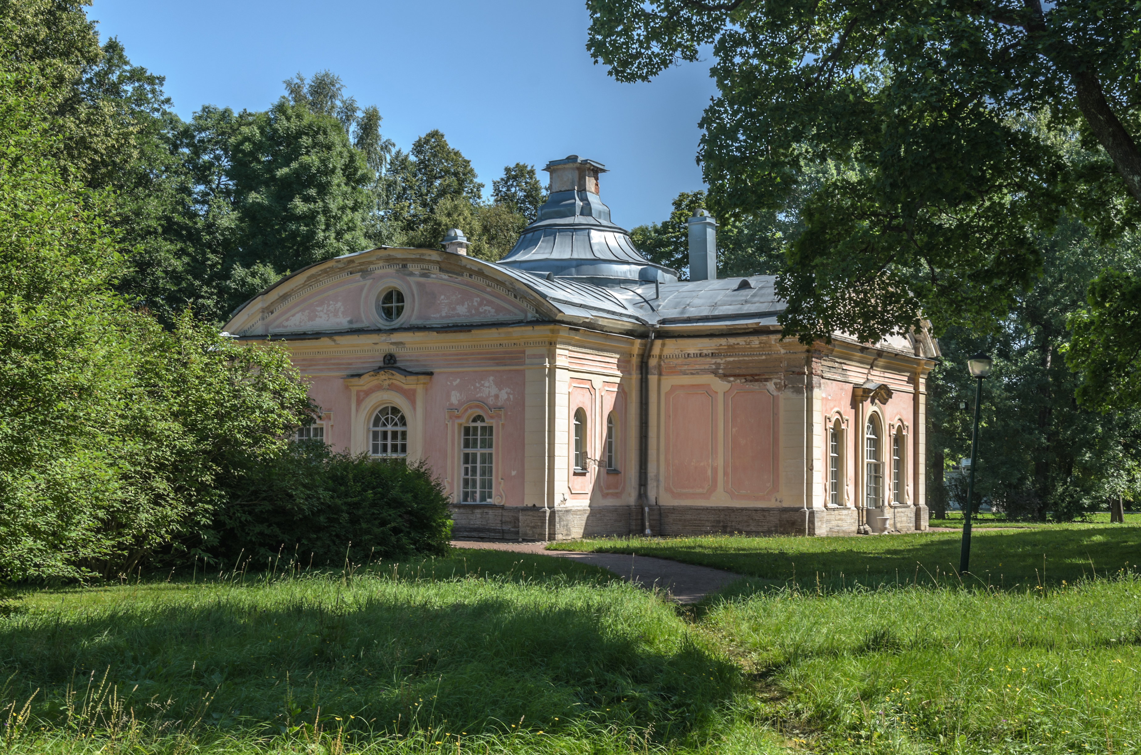 Chinese Kitchen in Oranienbaum Park